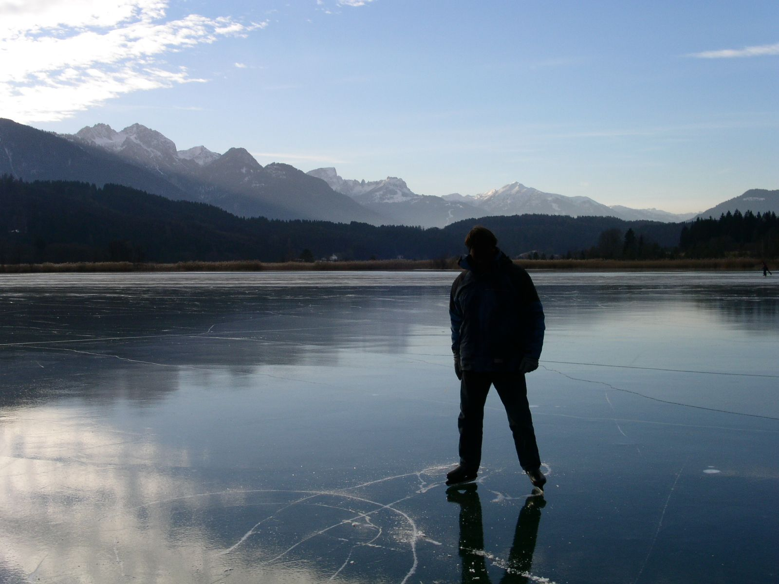 Outdoor ice skating in Austria Photographed by Kafubra on the 28.12.2003 @ Presseggersee, Carinthia, Austria An ice layer thick enough for safe ice skating normally forms on this lake every year. In 2003 the ice was exceptionally smooth as a result of a combination of three factors during the week before the picture was taken: 1) A complete lack of snowfall 2) very little wind 3) clear skies at night resulting in temperatures as low as -20 C The ice layer on the picture is about 20 cm thick. The bottom of the lake was visible through the ice. There were about 100 skaters present, though none had ventured to the centre of the lake where the picture was taken. Subject to disclaimers. Keywords ice skating, Austria, Carinthia, Hermagor, Presseggersee, black ice, mountains, reeds, Trogkofel, winter, reflection, dusk, forest